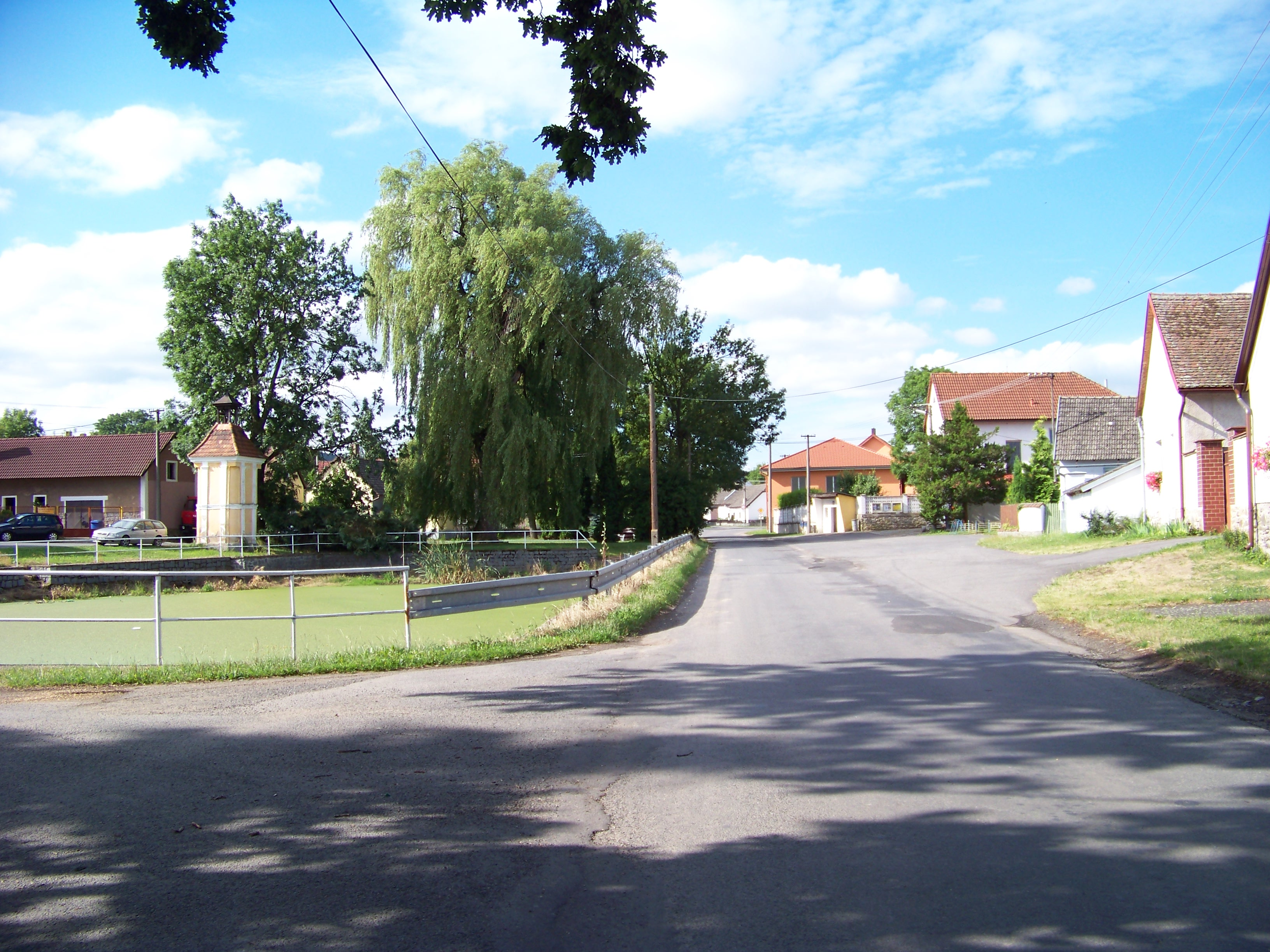 Nedrahovice, Příbram District, Central Bohemian Region, the Czech Republic. - Google Maps - Google Earth